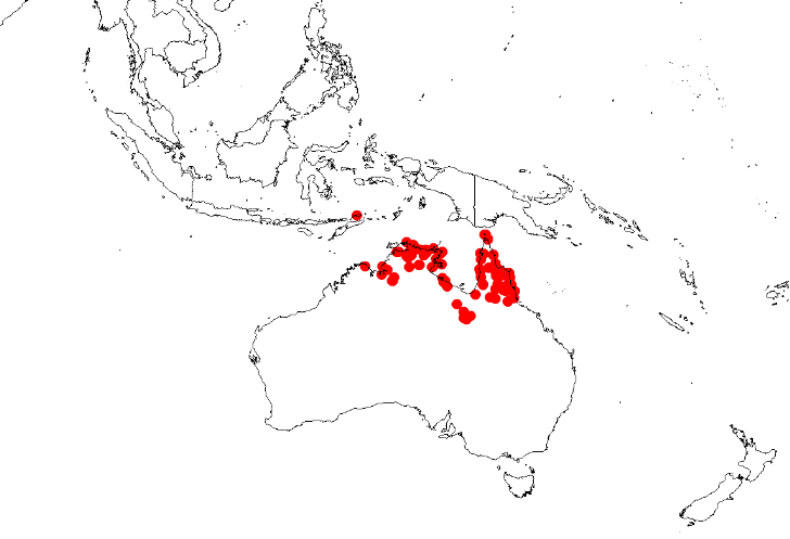 Decaisnina brittenii Occurrence data from AVH downloaded 24 February 2019 using